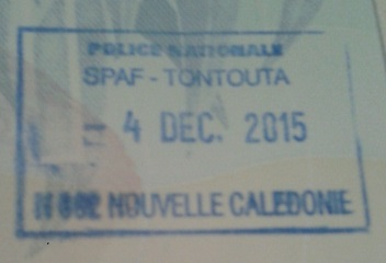 New Caledonia passport entry stamp